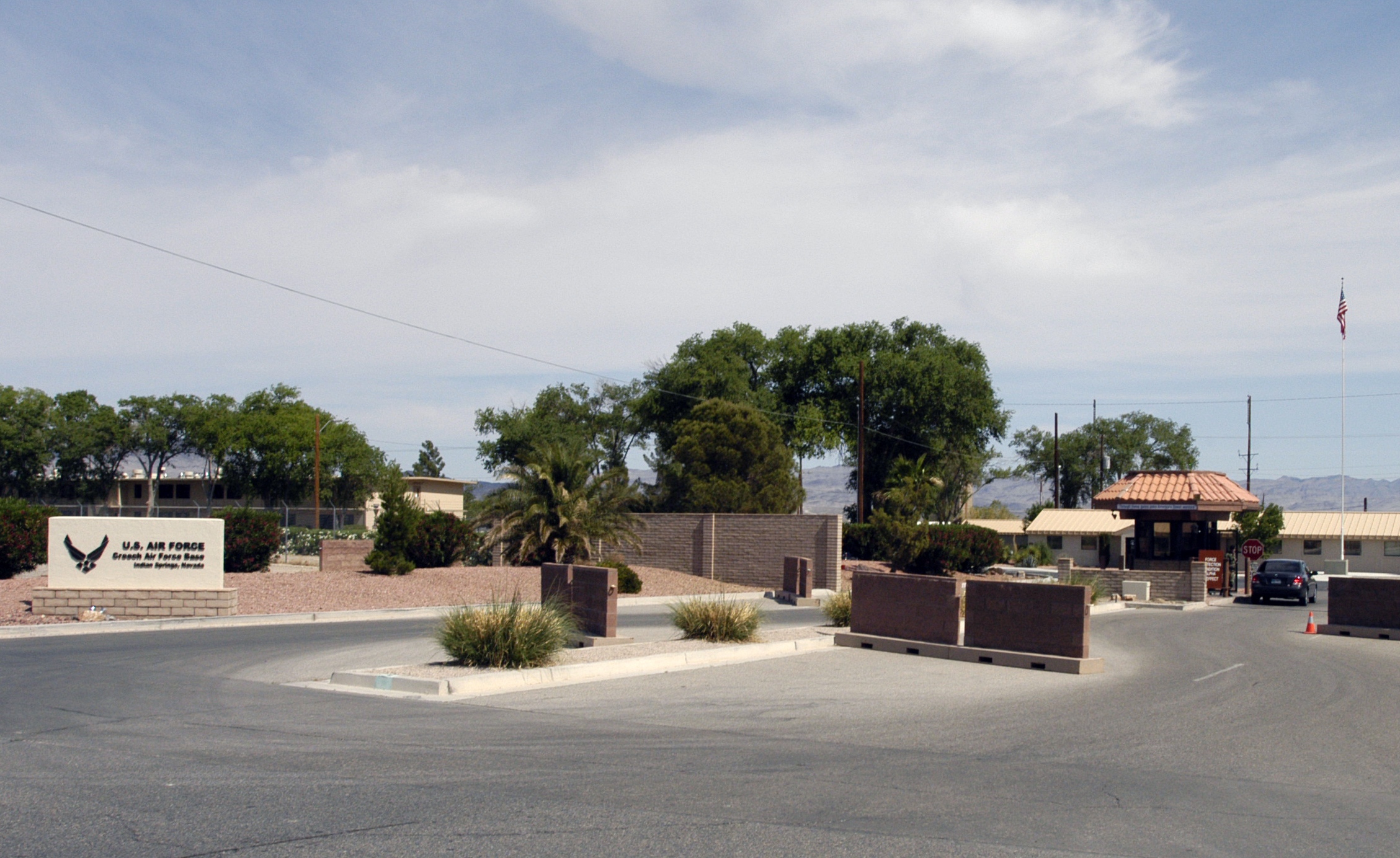 The Creech Air Force Base main gate is on U.S. Highway 95, at the north end of the small town of Indian Springs, Nevada. Creech is home to the MQ-1 Predator unmanned aerial vehicle, and is one of two emergency divert airfields for the 15,000-square-mile Nevada Test and Training Range Complex. The base is located about 45 miles northwest of Nellis Air Force Base.